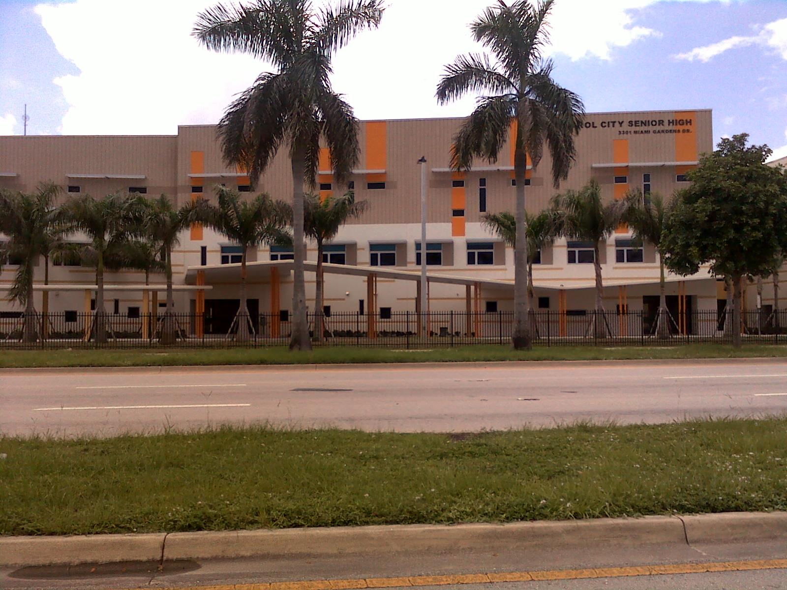 A photo of Miami Carol City Senior High School in September 2010.